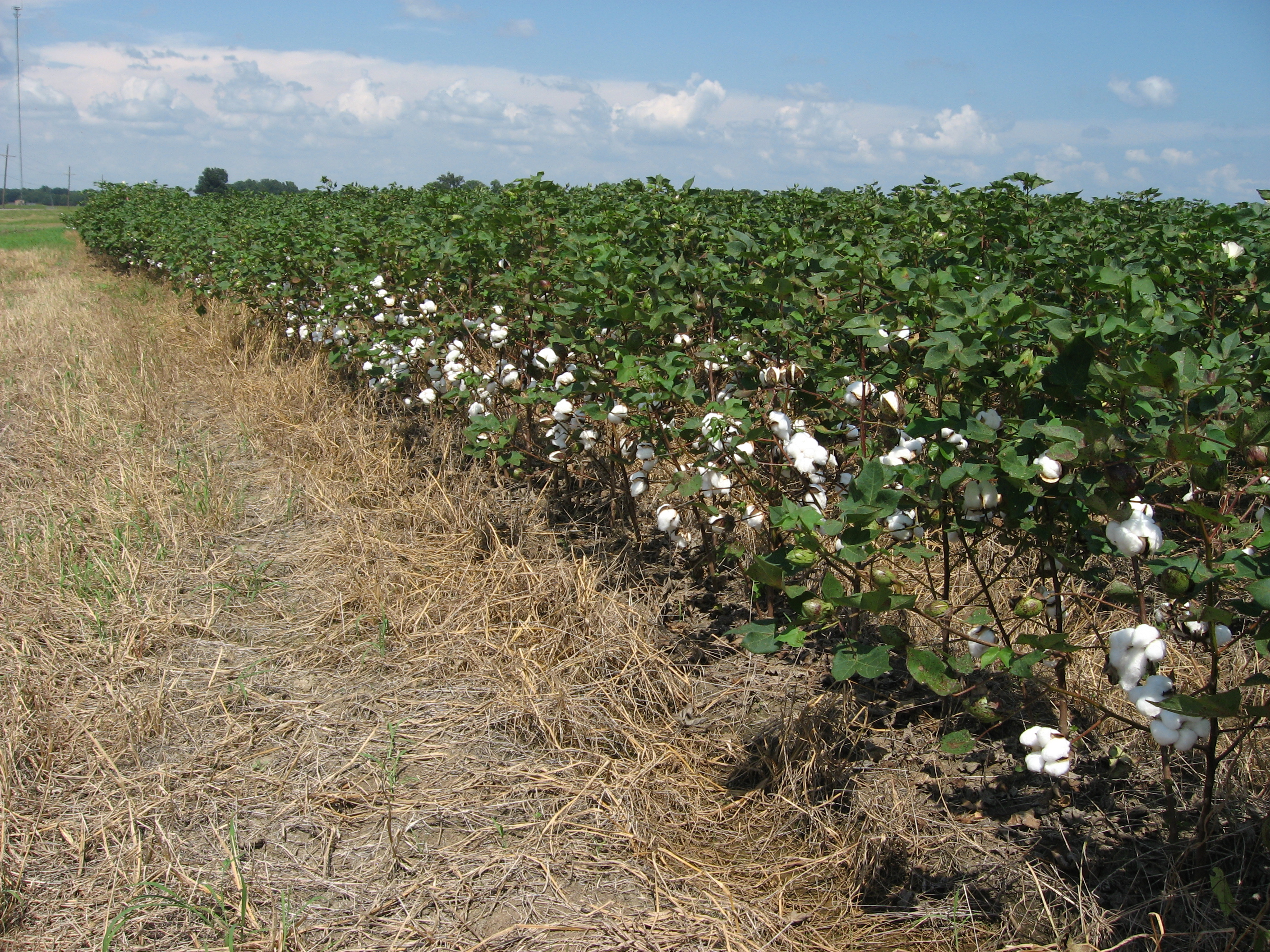 A cotton field, Tensas Parish, Louisiana, USA